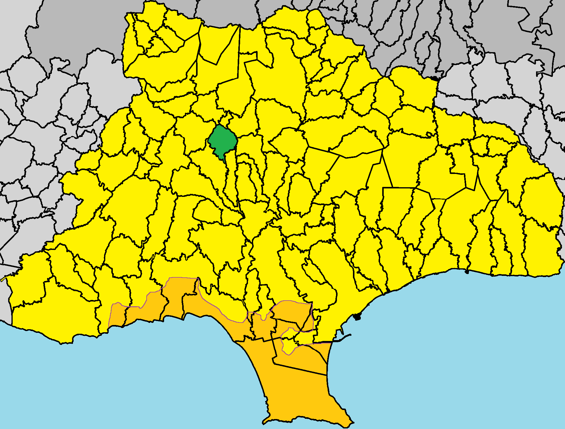 Silikou in Limassol District.